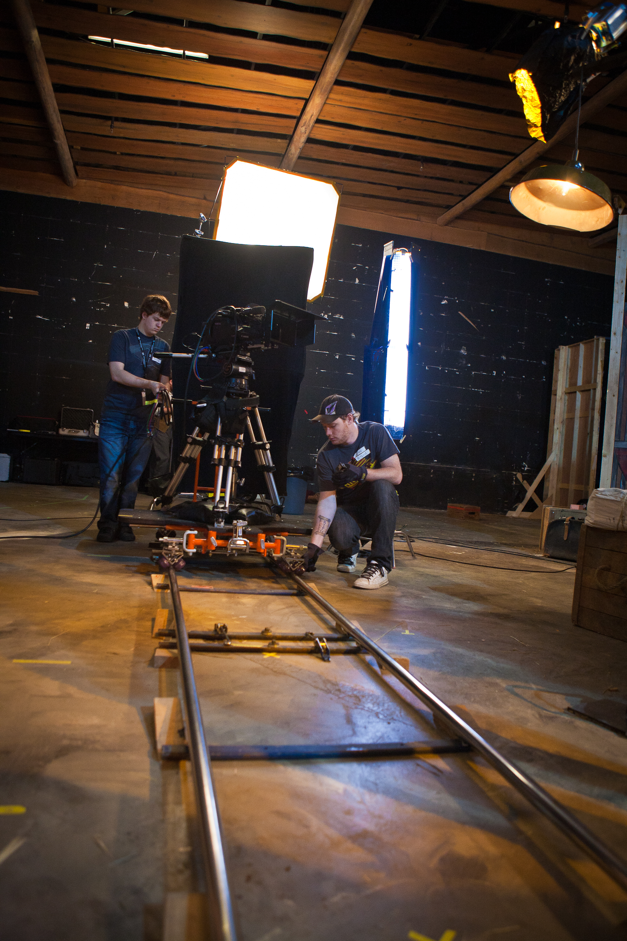 July 4th Film Production Summer Intensive.